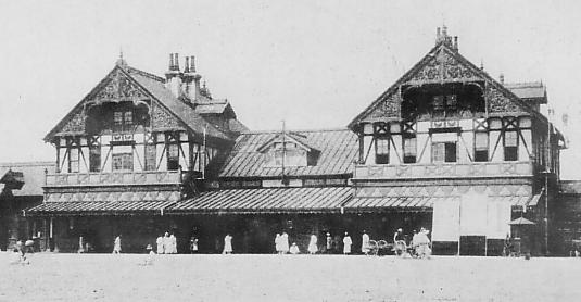 Ryuzan(Yongsan) Station